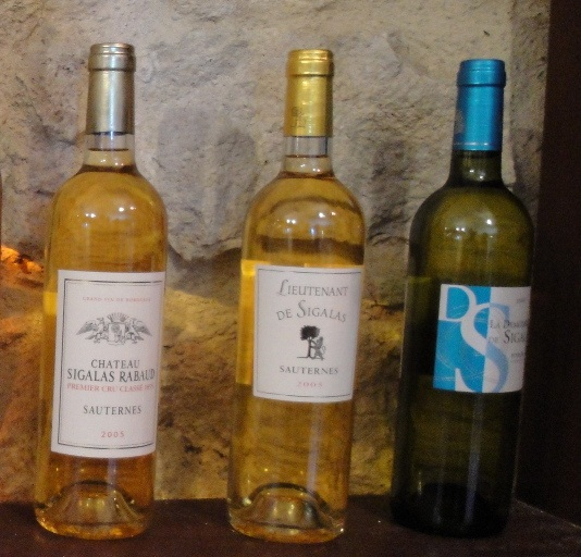 The range of wines produced by Château Sigalas-Rabaud. From left to right: Château Sigalas-Rabaud, Lieutenant de Sigalas, Demoiselle de Sigalas.